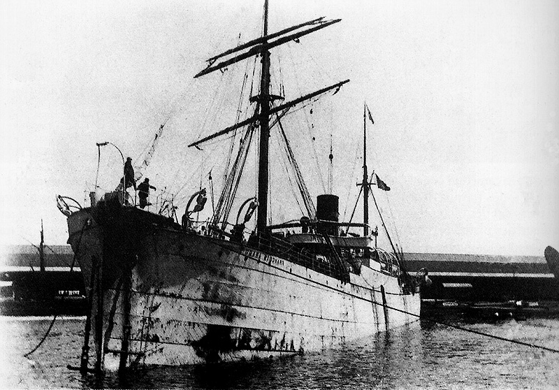 The french cableship "François Arago" in 1882.